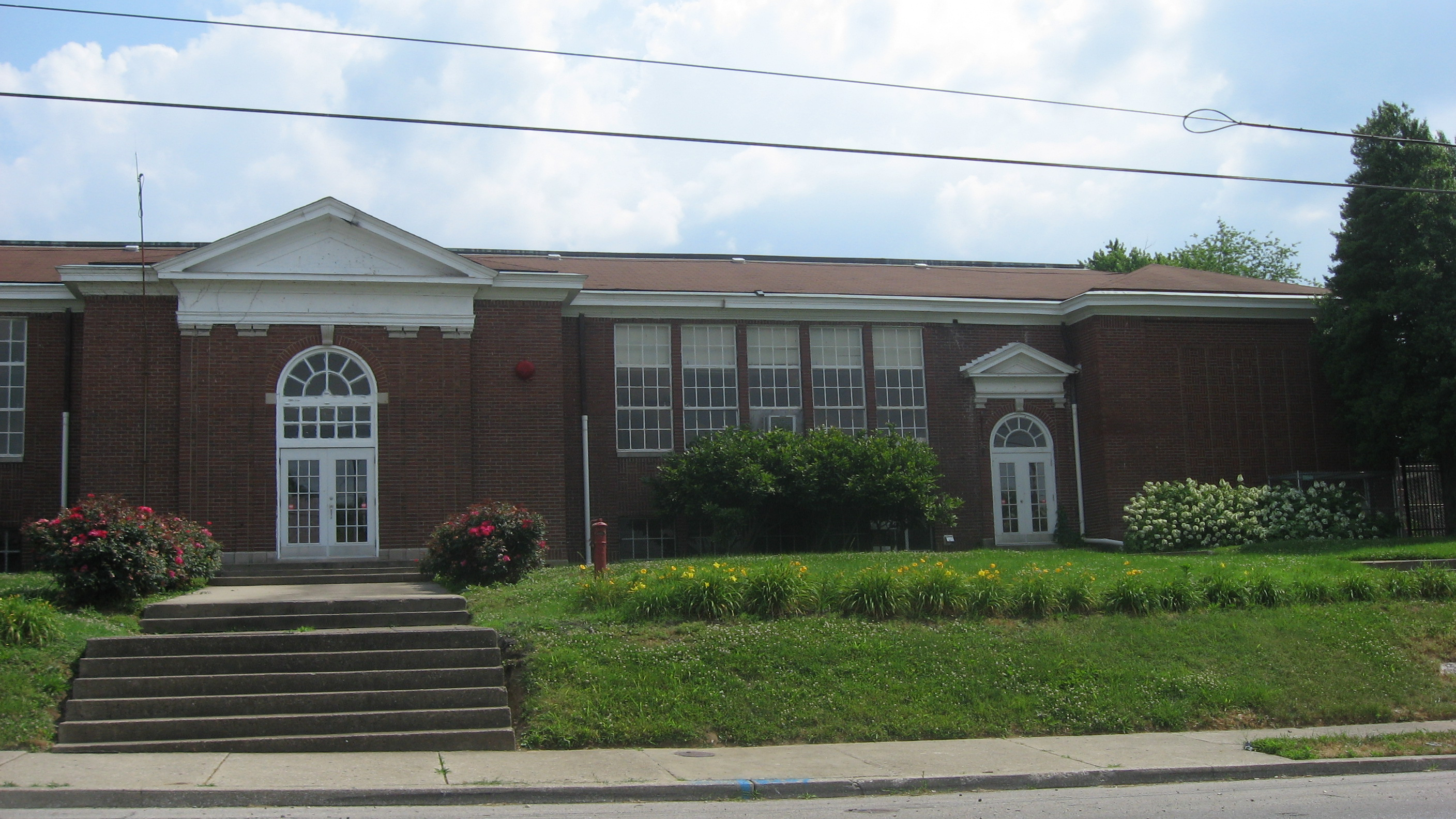 Part of the front of the Virginia Avenue Colored School, located at 3628 Virginia Avenue in Louisville, Kentucky, United States. Built in 1923, it is listed on the National Register of Historic Places.